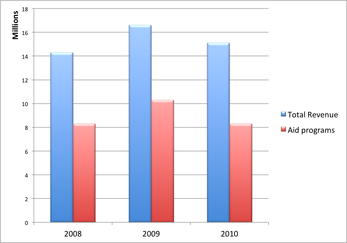 comparing data of 2008, 2009, 2010 for CWF (Canadian Wildlife Federation)